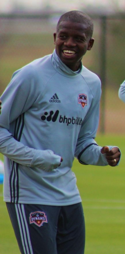 Oscar Boniek García